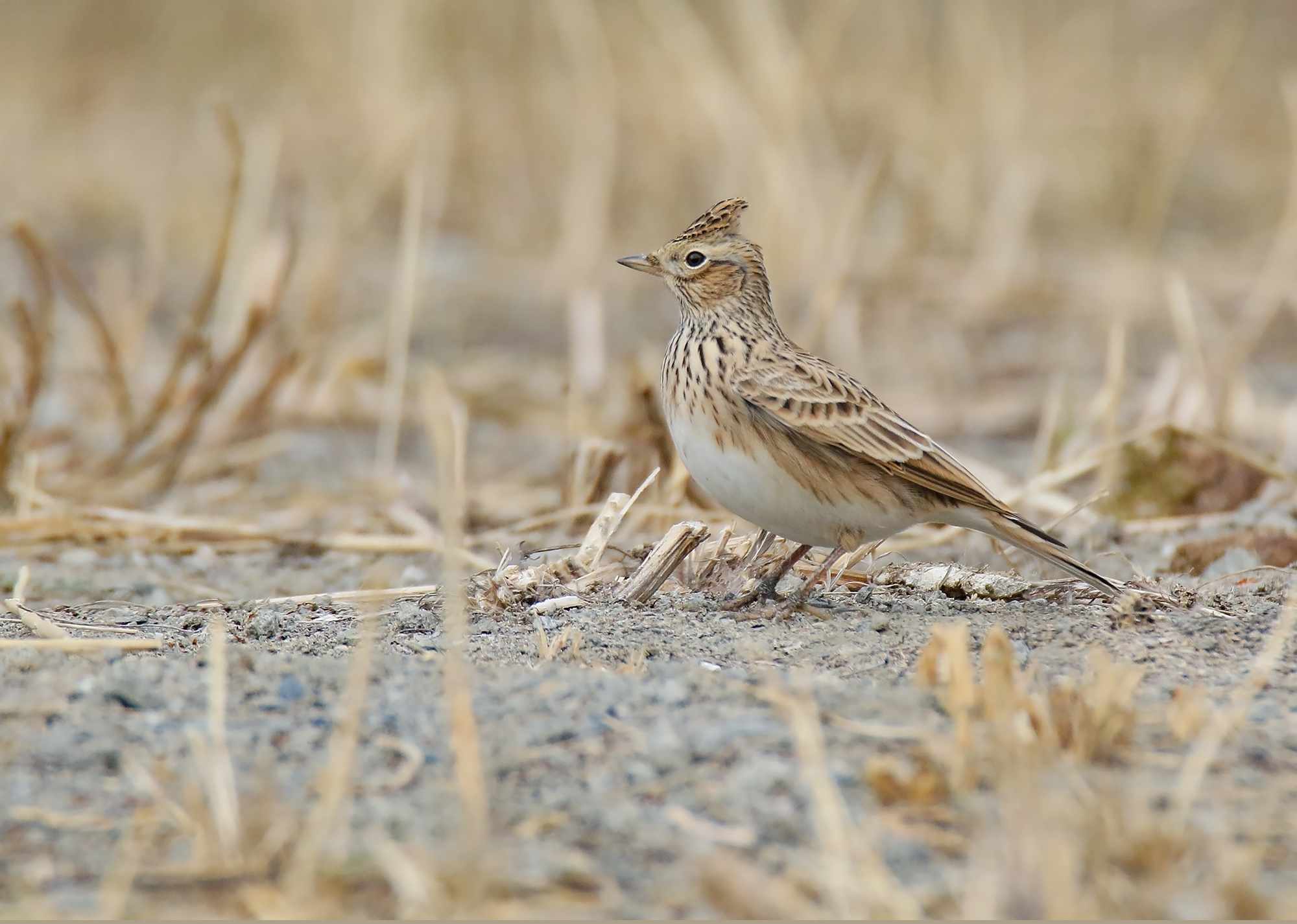 Eurasian Skylark (Alauda arvensis) captured at Borit, Gojal, Gilgit-Baltistan, Pakistan with Canon EOS 7D Mark II